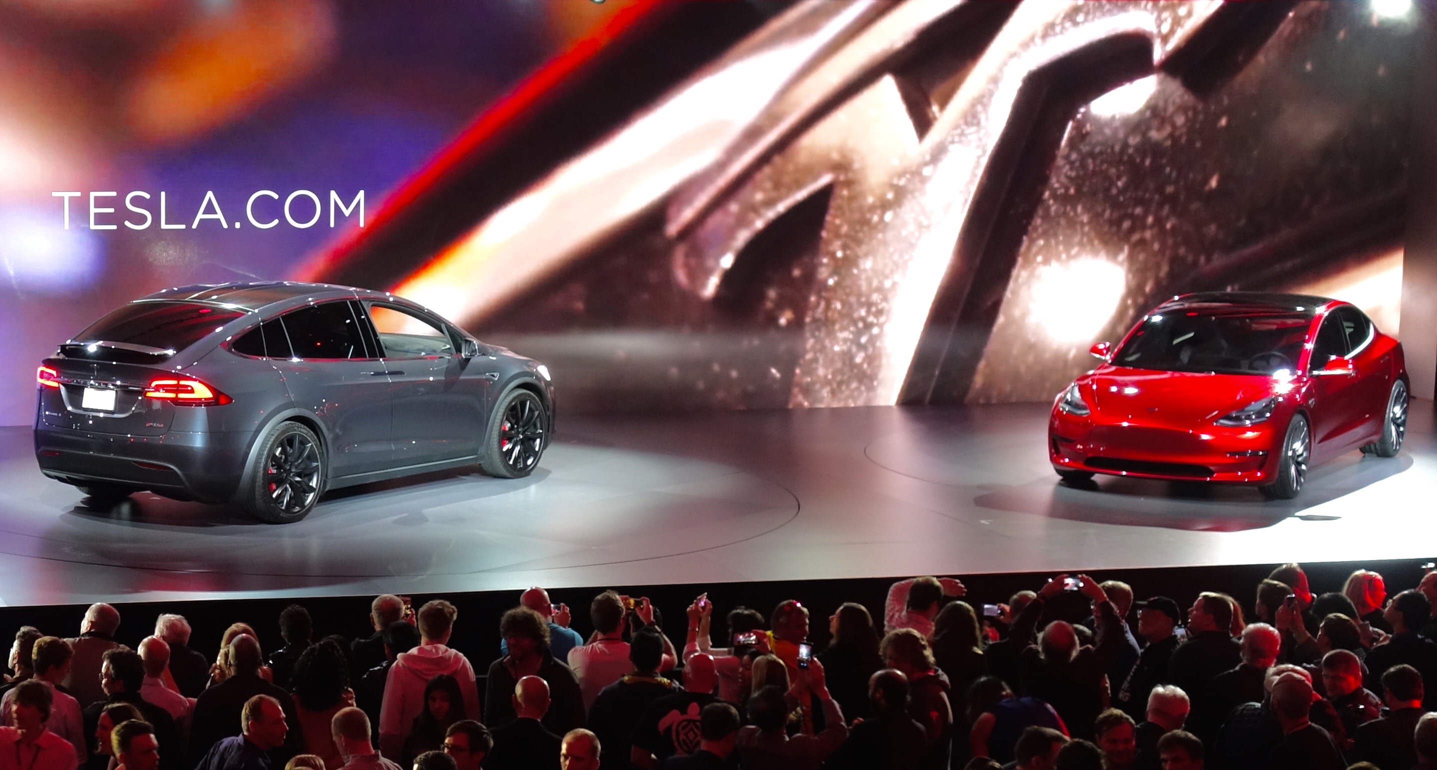 Tesla Model X (left) and Model 3 (right) at the unveiling event on March 31, 2016, shot from the VIP lounge above